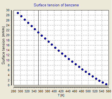 Translated from image:SFT-Benzol.png Diagram shows surface tension of benzene